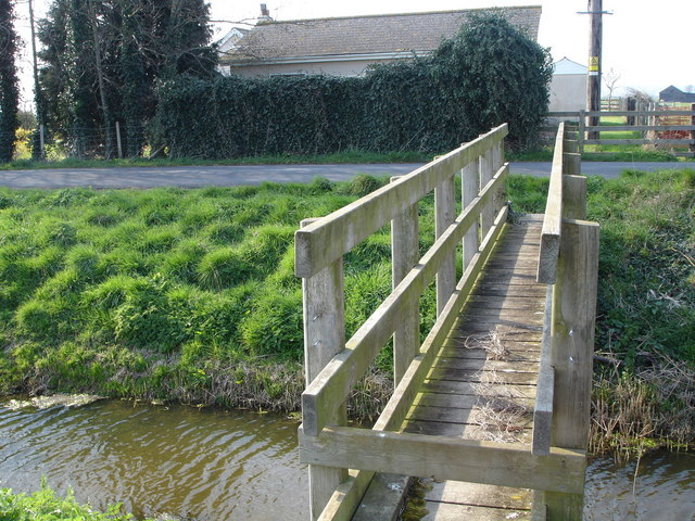 Sheep proof footbridge This is one of many footbridges that cross the profusion of dykes on the Romney Marsh